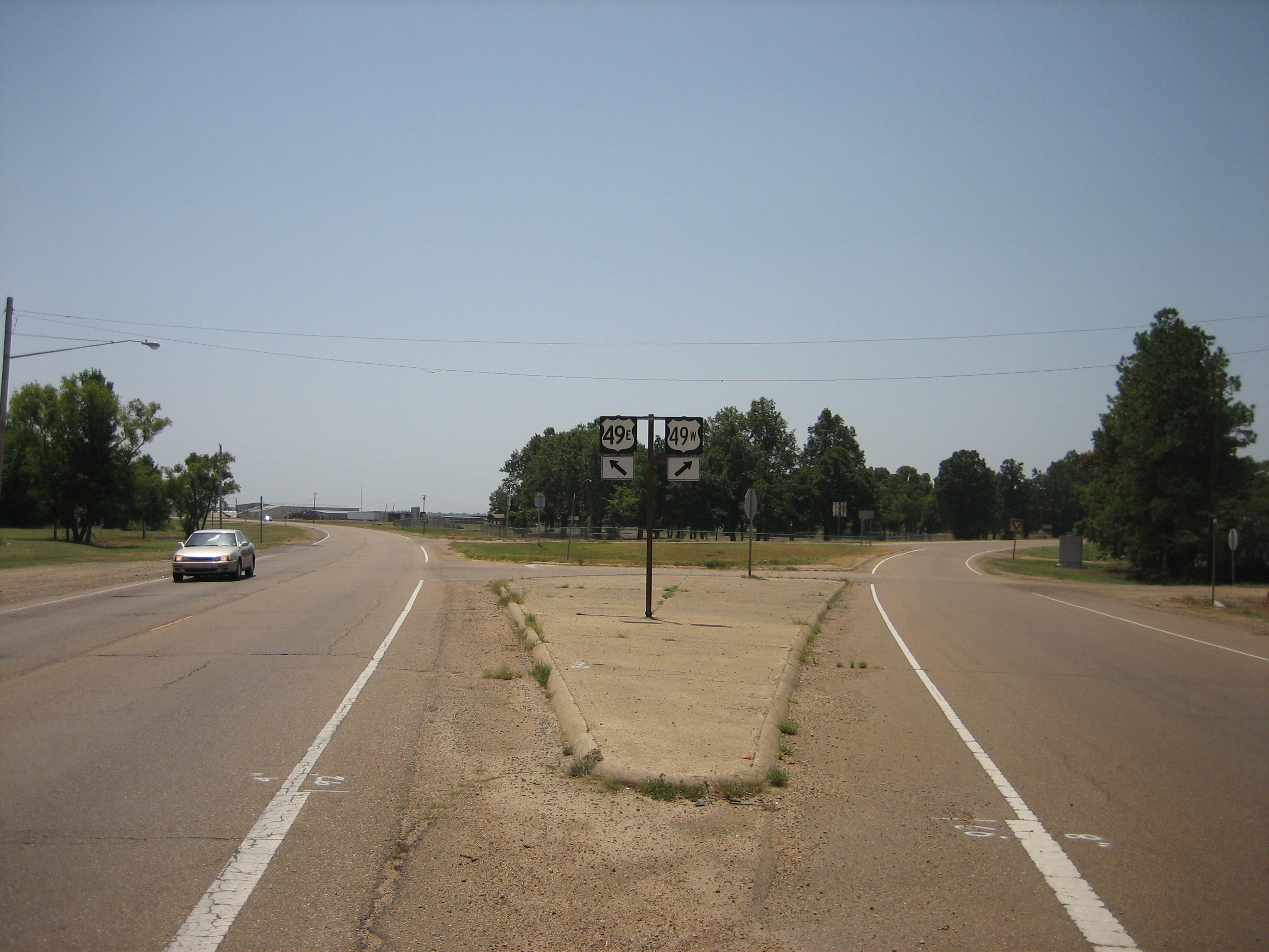 U.S. Route 49 splits into east and west routes. The west route goes to the Mississippi State Penitentiary (Parchman Farm) and the Dockery Plantation, while the east goes to Greenwood